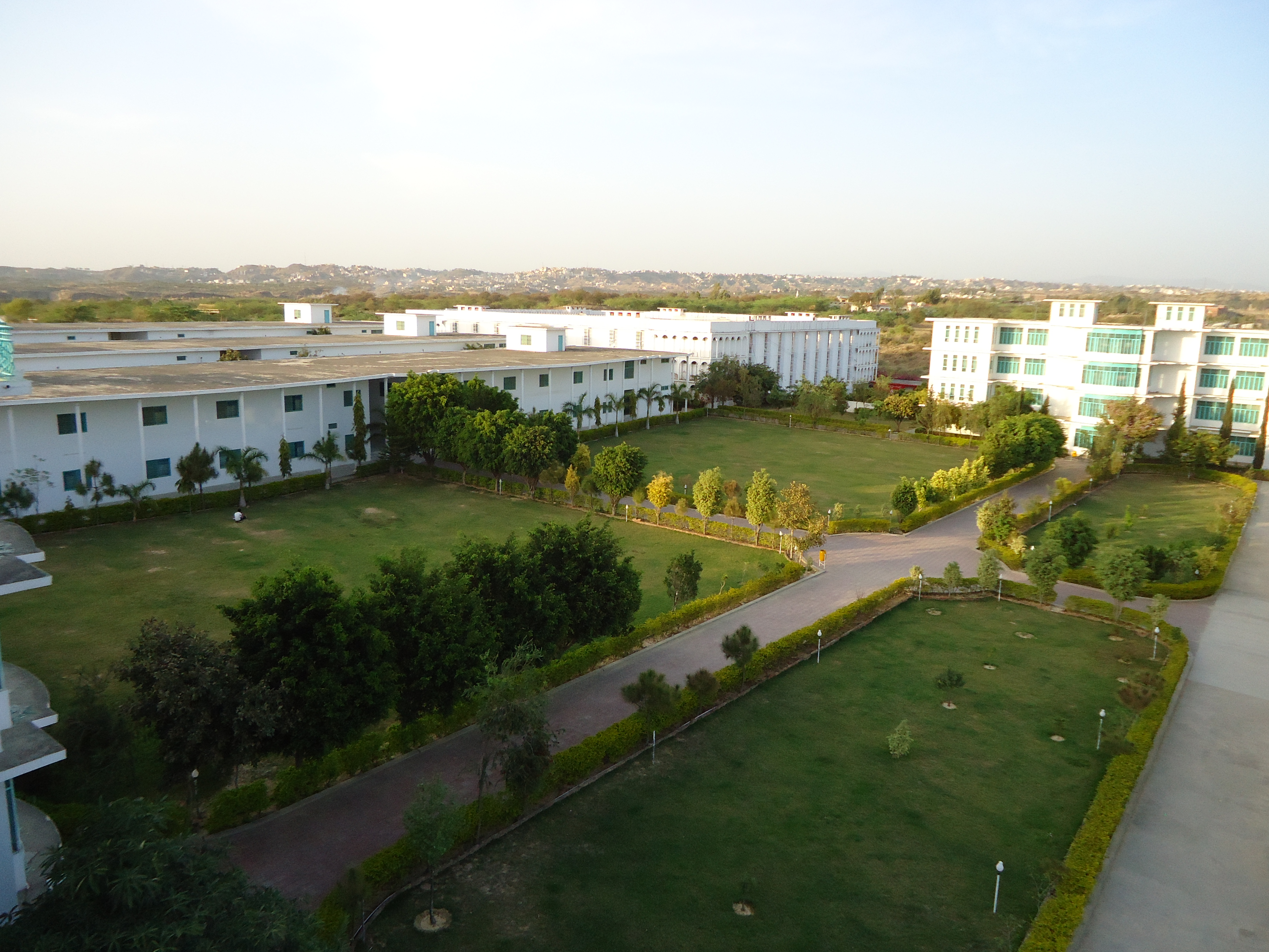 Departments of Mohi-ud-Din Islamic Medical College (MIMC) as seen from boys hostel; Mirpur, Azad Kashmir.